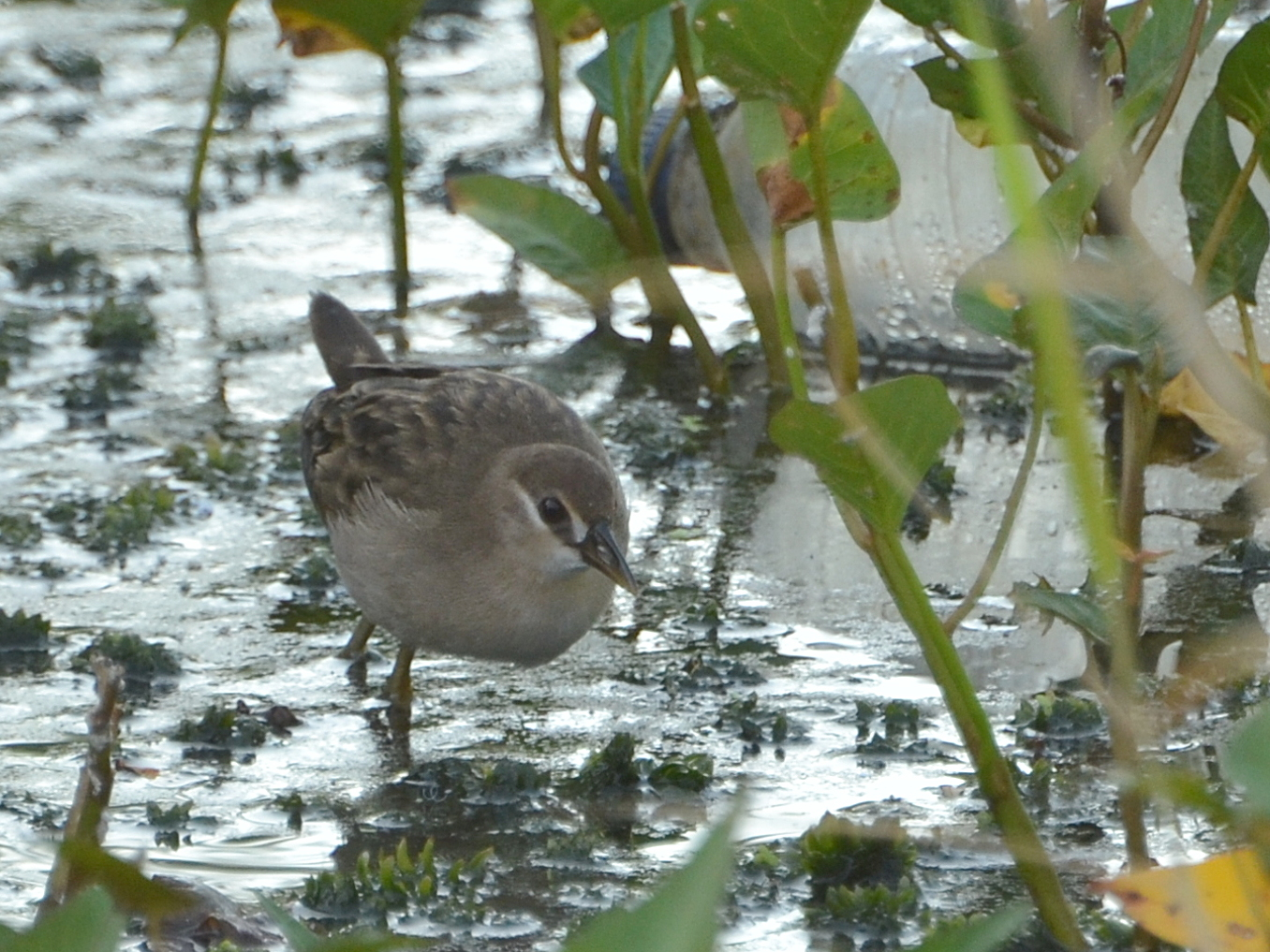 White-browed crake (Amaurornis cinerea) at Manado, North SulawesiBahasa Indonesia: Tikusan alis-putih (Amaurornis cinerea) di Manado, Sulawesi Utara